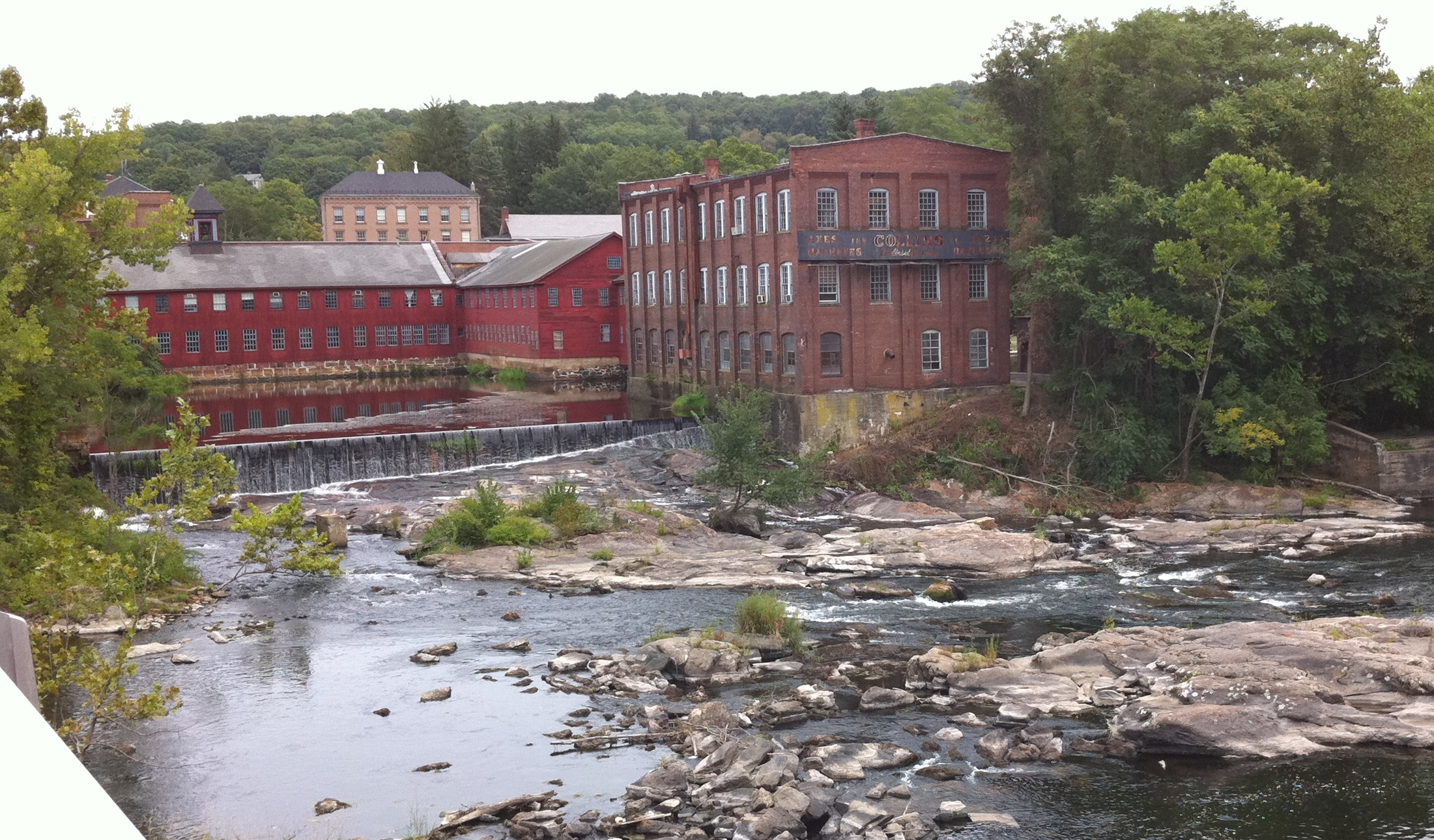 The old Collins Mill in Collinsville, Connecticut as viewed from the bridge on Connecticut Route 179. The Farmington River is visible in the foreground.